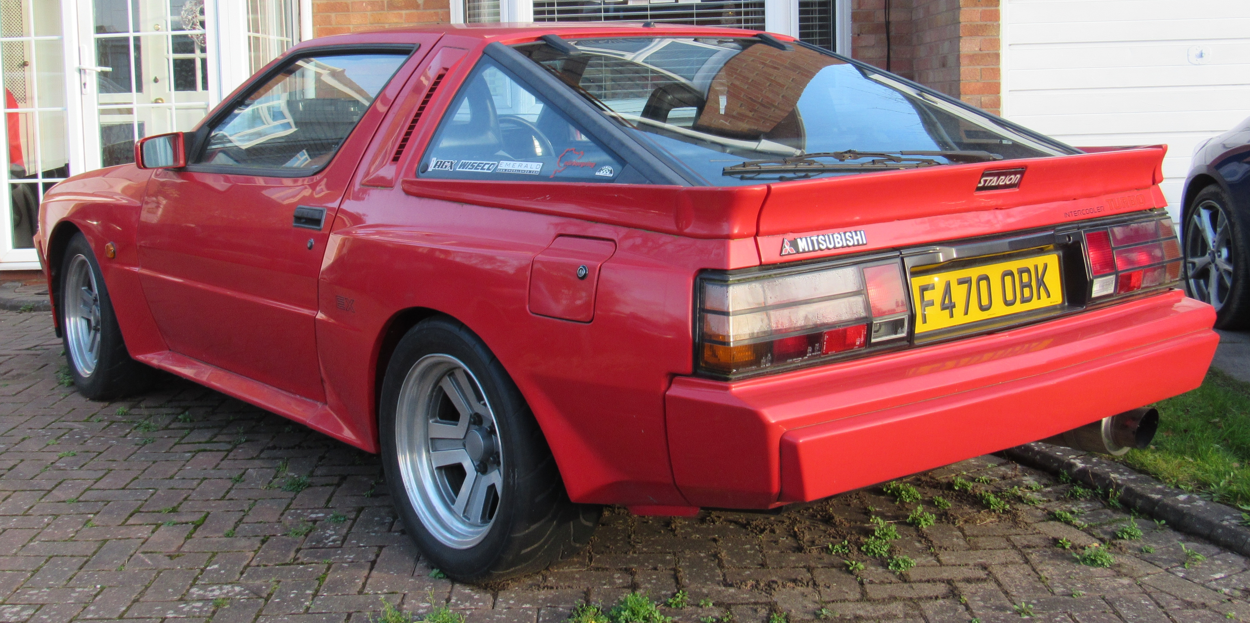 1988 Mitsubishi Starion Turbo 2.0 Taken in Warwick